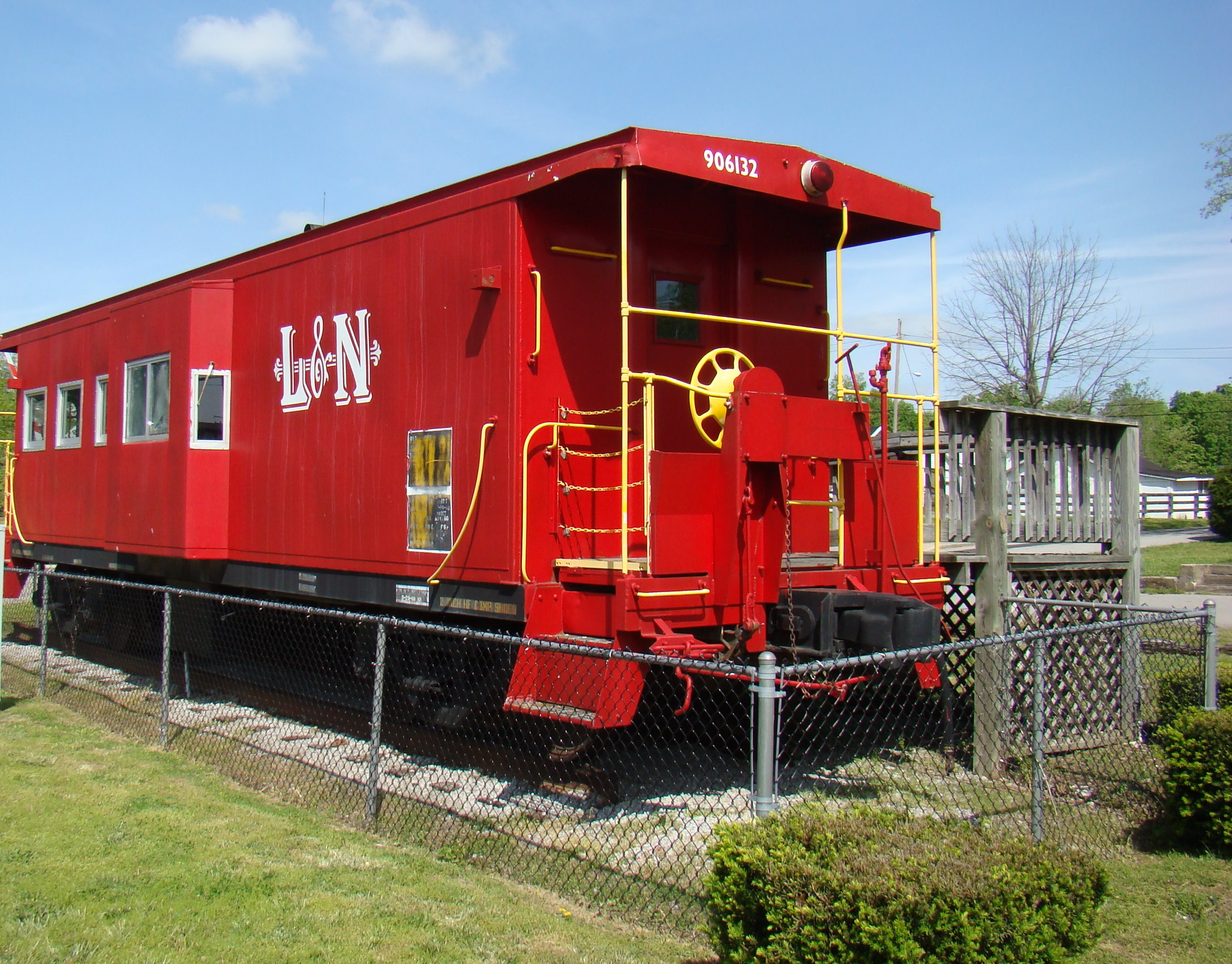 Caboose at Stanford L&N Railroad Depot, a historic railroad depot located at the intersection of Depot Street and Mill Street in Stanford, Kentucky.